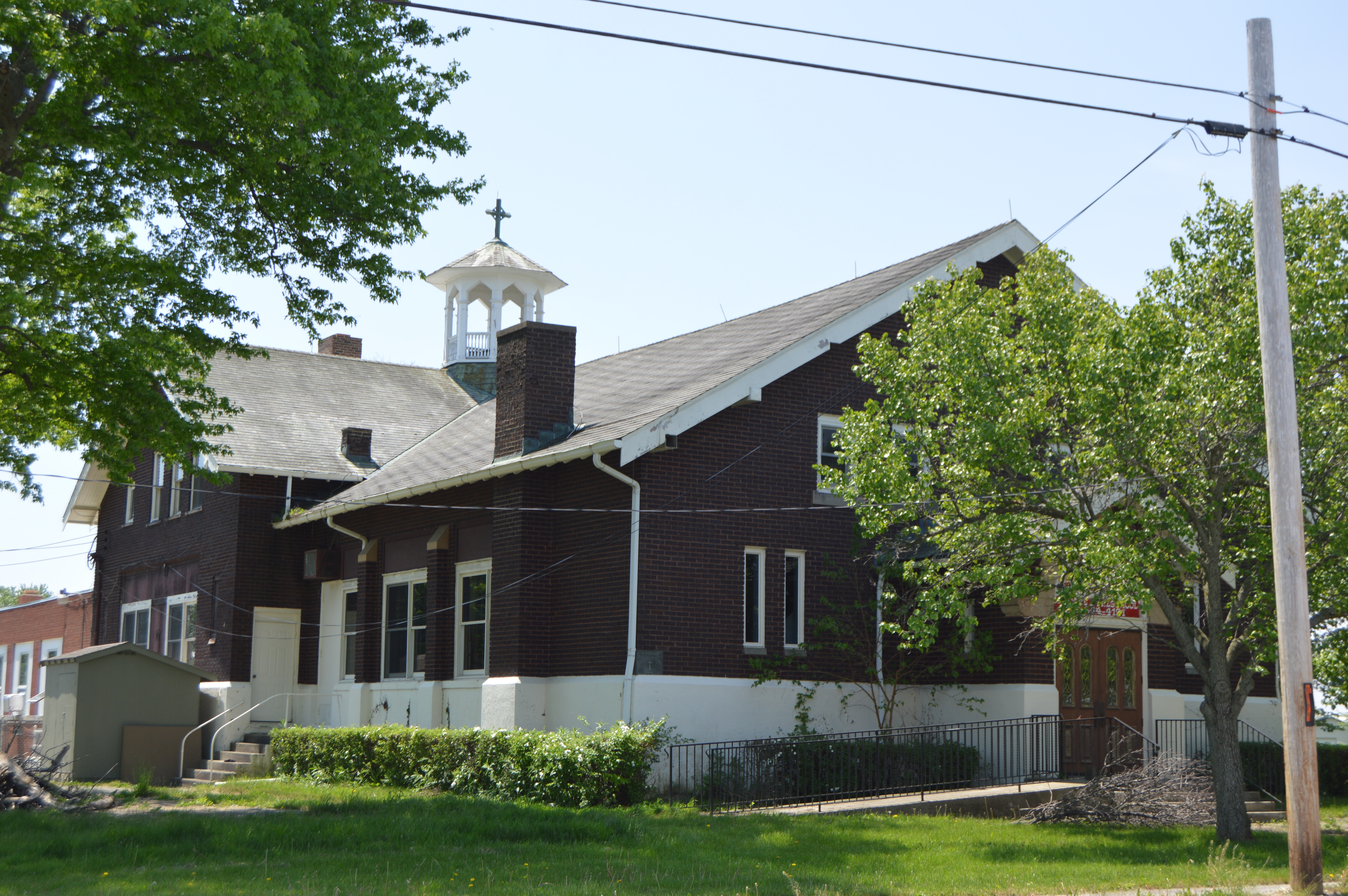 Front and eastern side of the former Richfield Center school (now a preschool and daycare center), located inside the block bounded by Washburn Road, Richfield Center Road, and Sylvania Avenue in Richfield Township, Lucas County, Ohio, United States.